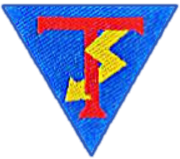 Törni Company’s shoulder patch. This emblem became legendary for bravery among the men of the First Infantry Division.